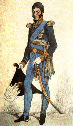 Pyotr Bagration, painter D. Daytuna, 1814